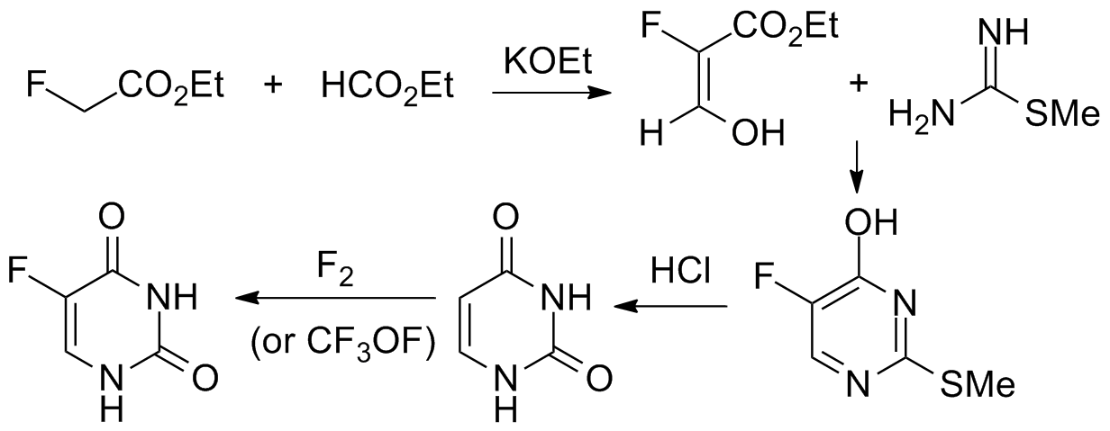 US 3682917 US 3846429 US 3954758 DE 2149504 DE 2719245 DE 2726258